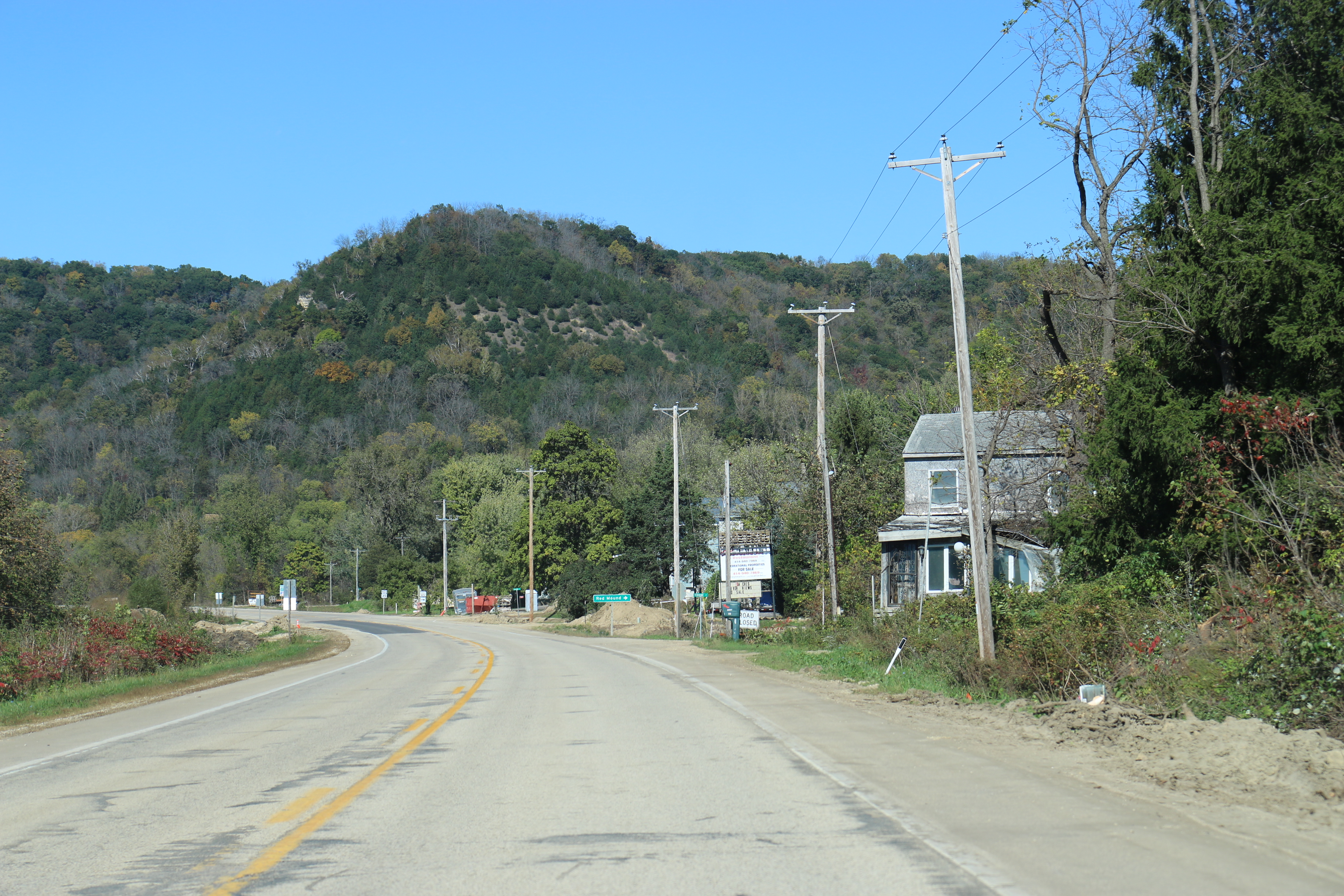 Downtown Victory, Wisconsin on WIS35.